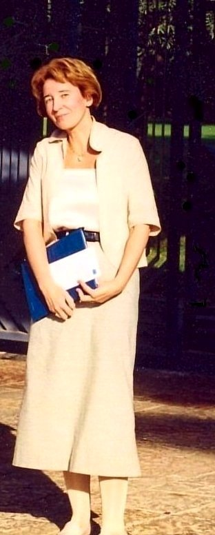 Photo of the artist Joanna Angelett.